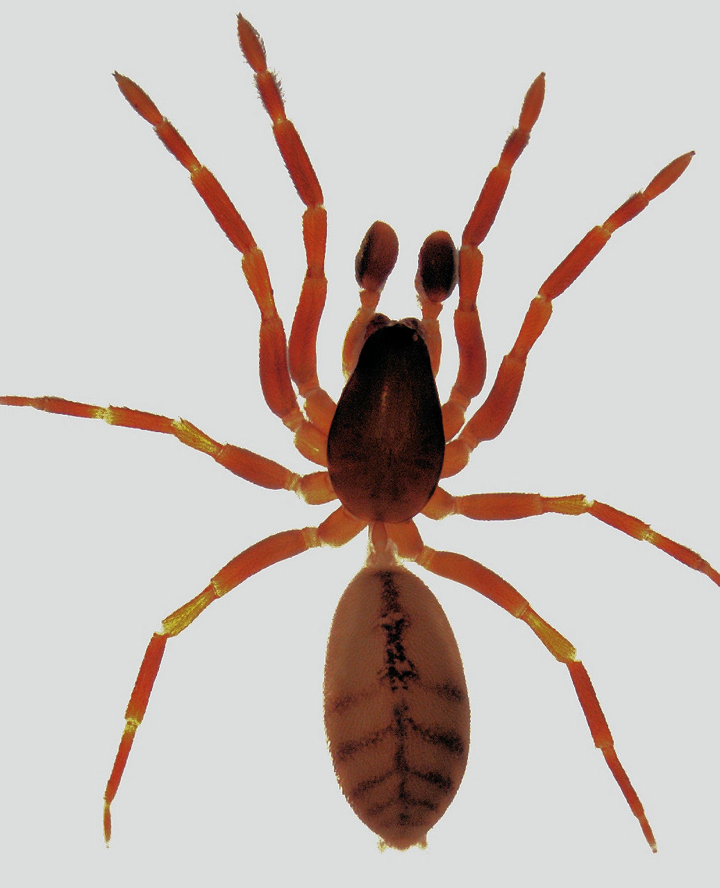 adult male Huttonia sp.